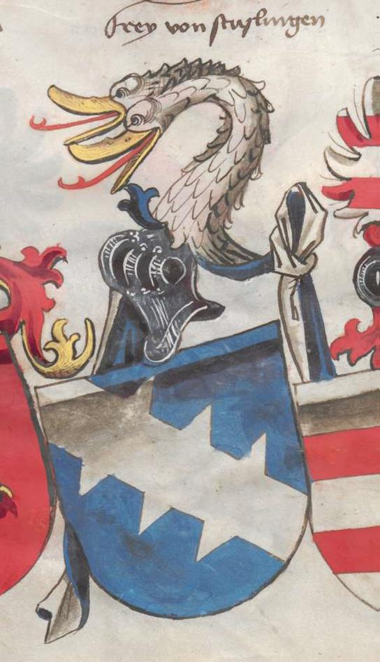 Coats of arms of the extinguished noble family of Steußlingen, residing on the castles of Alt- and Neusteußlingen